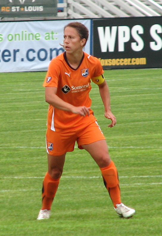 Kacey White of the NJ Sky Blue FC .